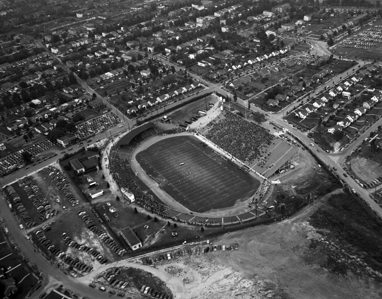 Title: Tobacco Bowl football game Creator: Adolph B. Rice Studio Date: 1949 Identifier: Rice Collection 4F Format: 1 negative, safety film, 4 x 5 in. Repository: Library of Virginia, Prints and Photographs, 800 E. Broad St., Richmond, VA, 23219, USA, :8881/R